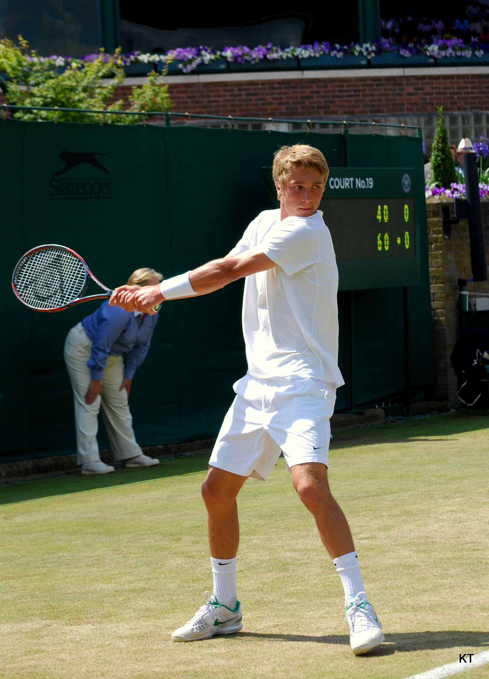 Liam Broady during his 3rd round match with Jiri Vesely. Day 9 of Wimbledon 2011.